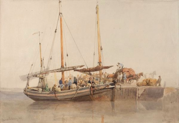 Pencil and watercolour Signed and dated lower right ‘E Duncan / 1849 19.00inch wide 12.75inch high (48.26 cm wide 32.38 cm high)